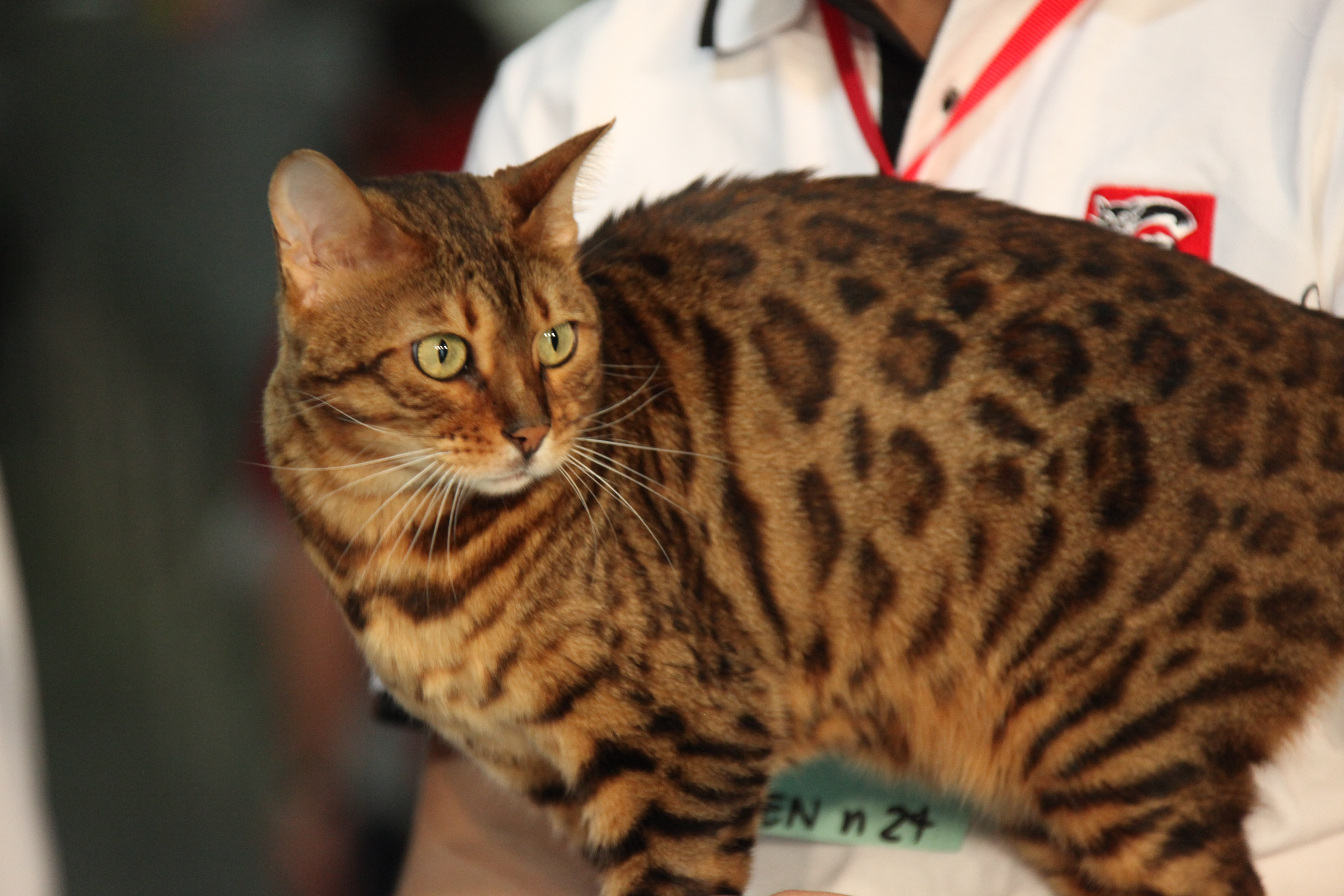 A bengal cat in Fifé Worldshow 2009